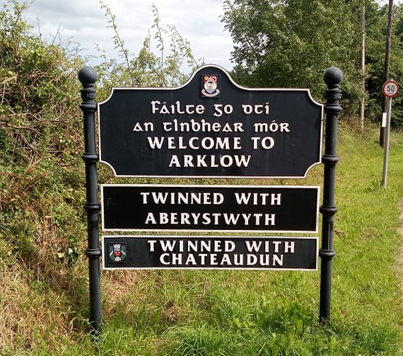 Welcome to Arklow signage, twin towns